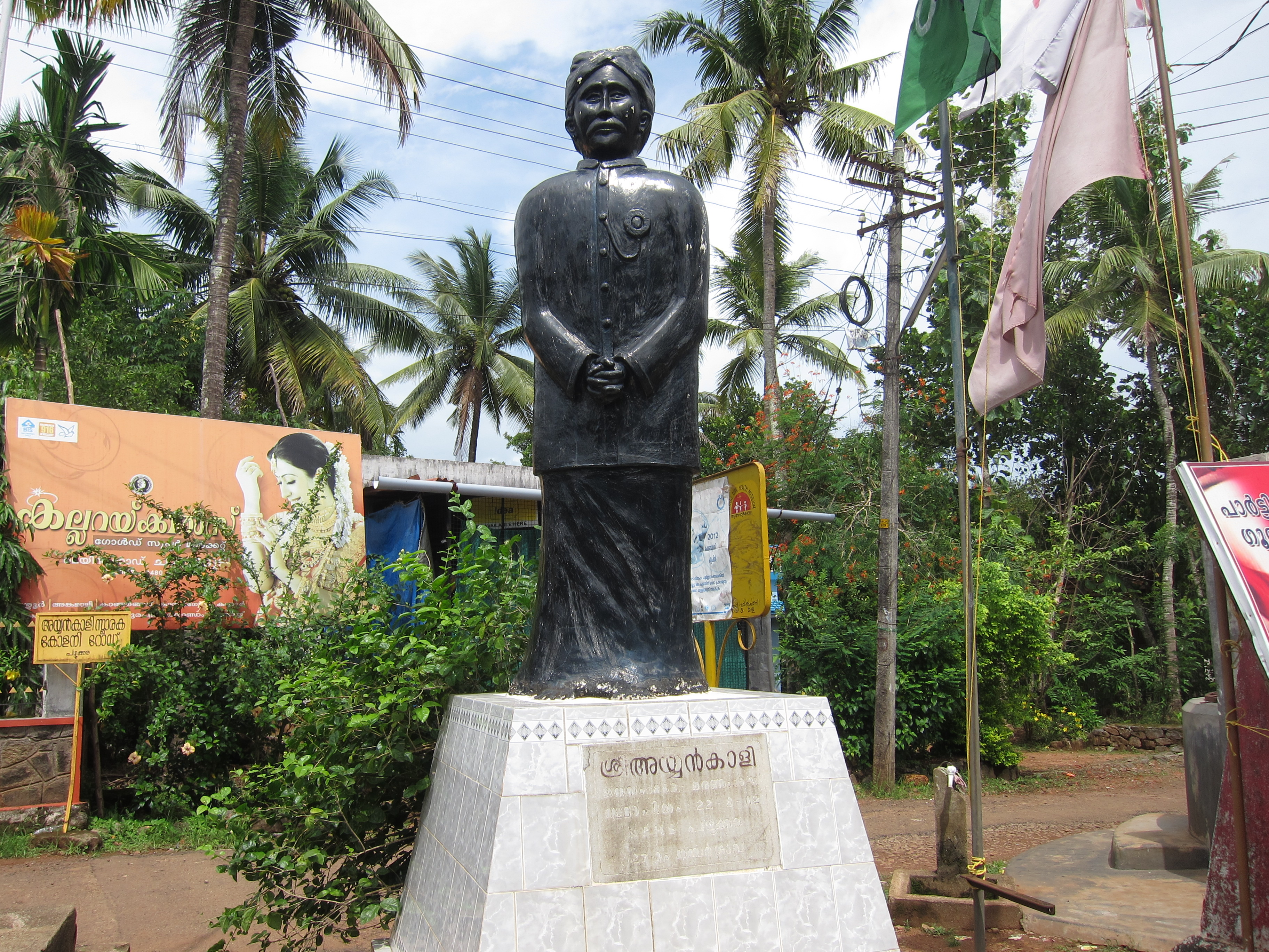 Sri Ayyankali